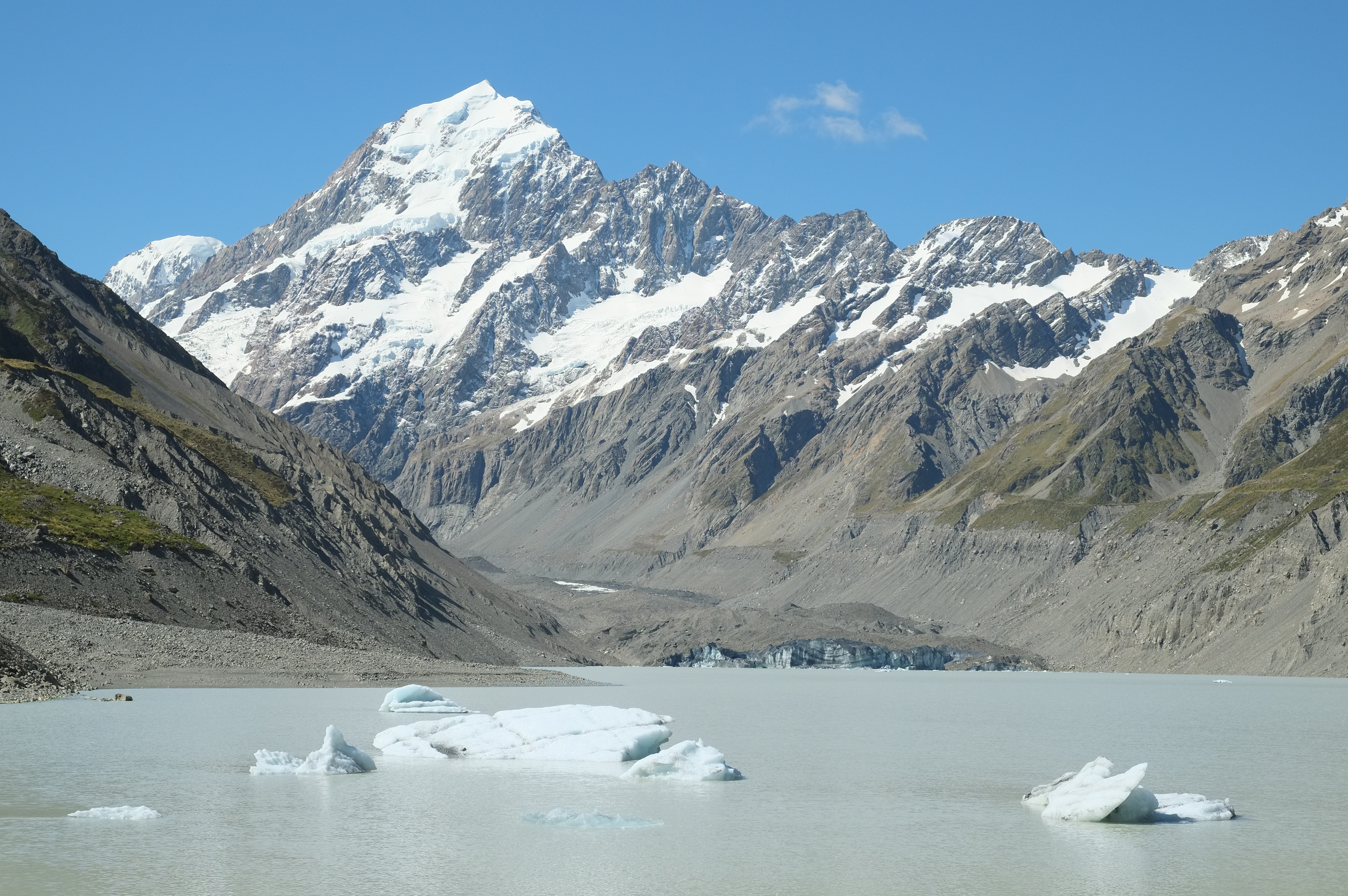 Icebergs floating in Hooker Glacier Lake in front of Aoraki / Mount Cook